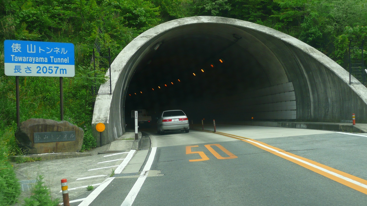 Tawarayama Tunnel (Nishihara Village, Kumamoto, Japan)